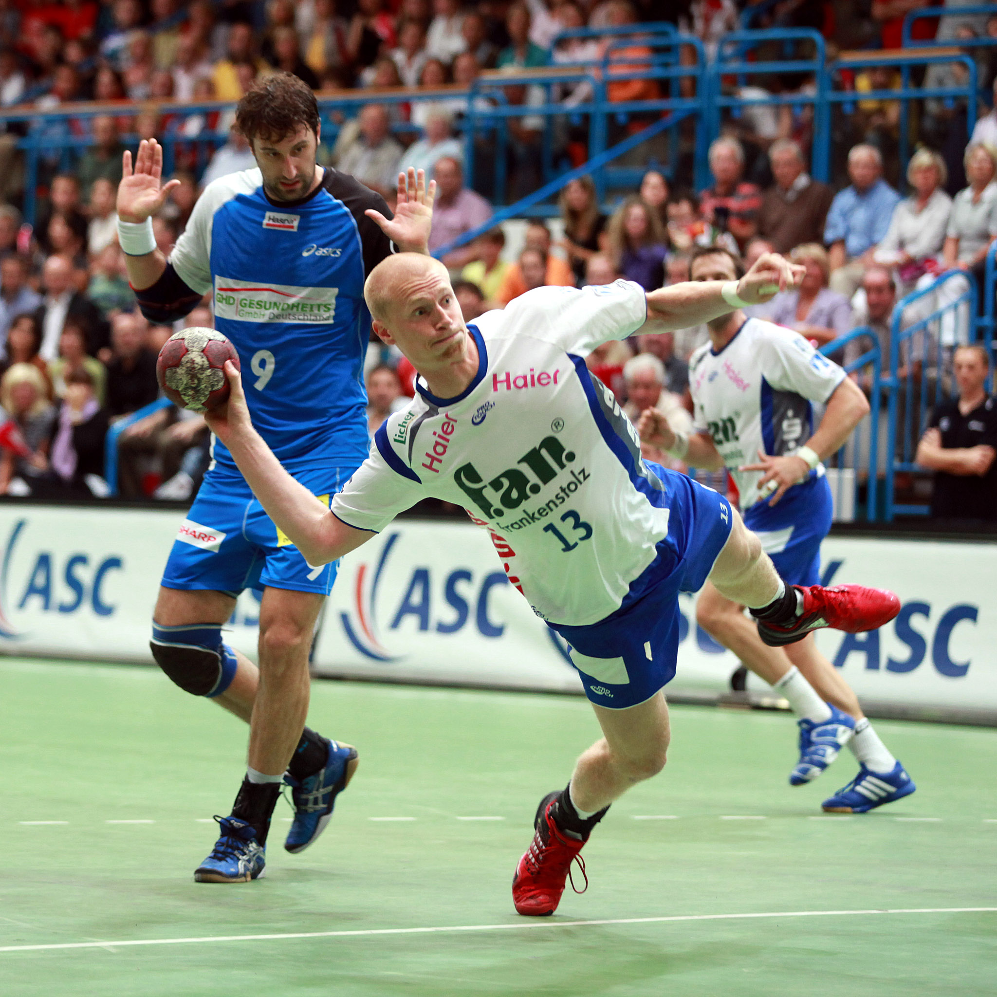 Joakim Larsson, Swedish handball player from TV Großwallstadt, on September 6th, 2009 in the f.a.n. frankenstolz arena of Aschaffenburg, prior the